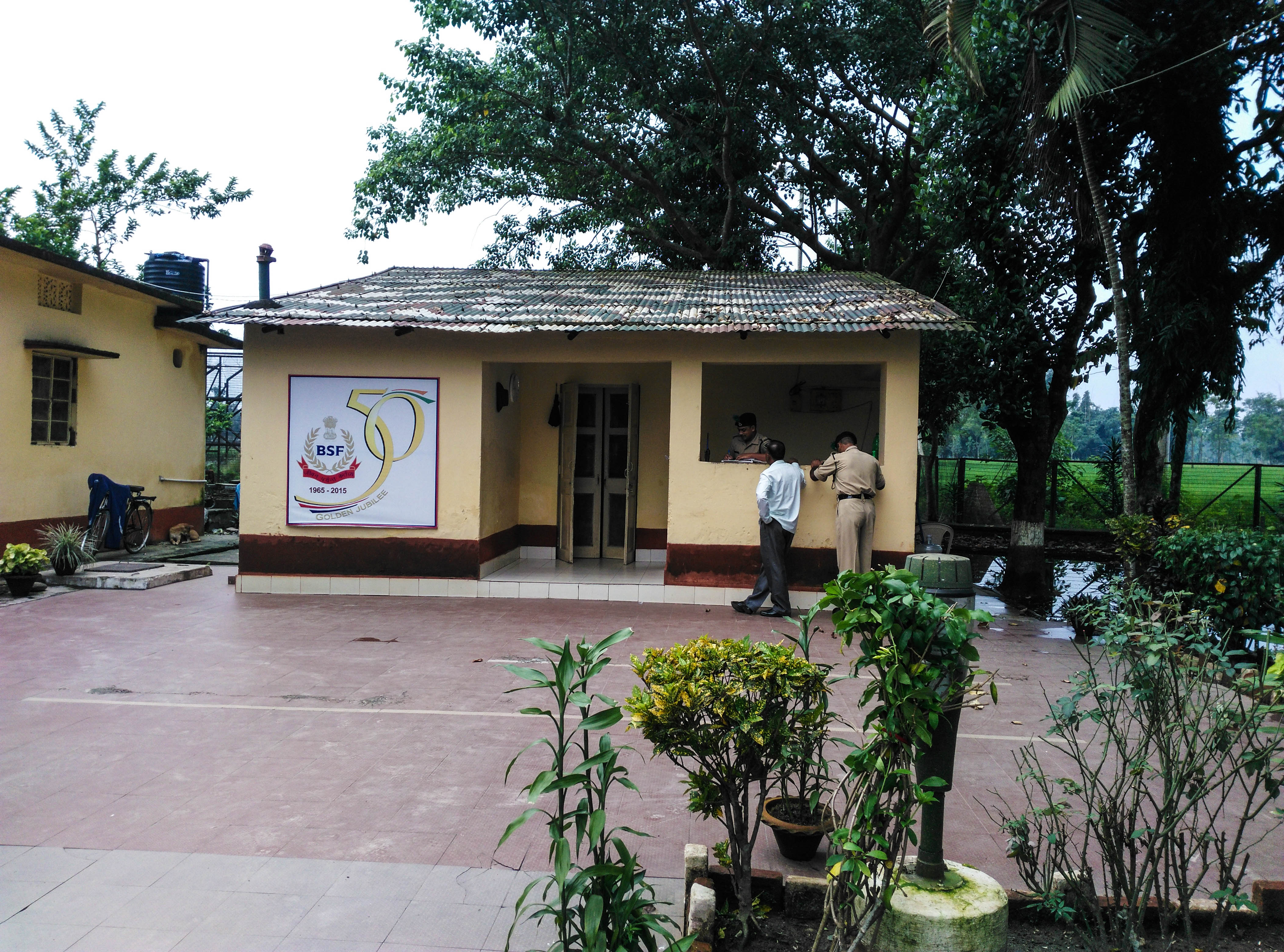 Tin Bigha Corridor (তিনবিঘা করিডর). The ‘Tin Bigha Corridor’ connceting the Dahgram-Angarpota enclave with mainland Bangladesh.